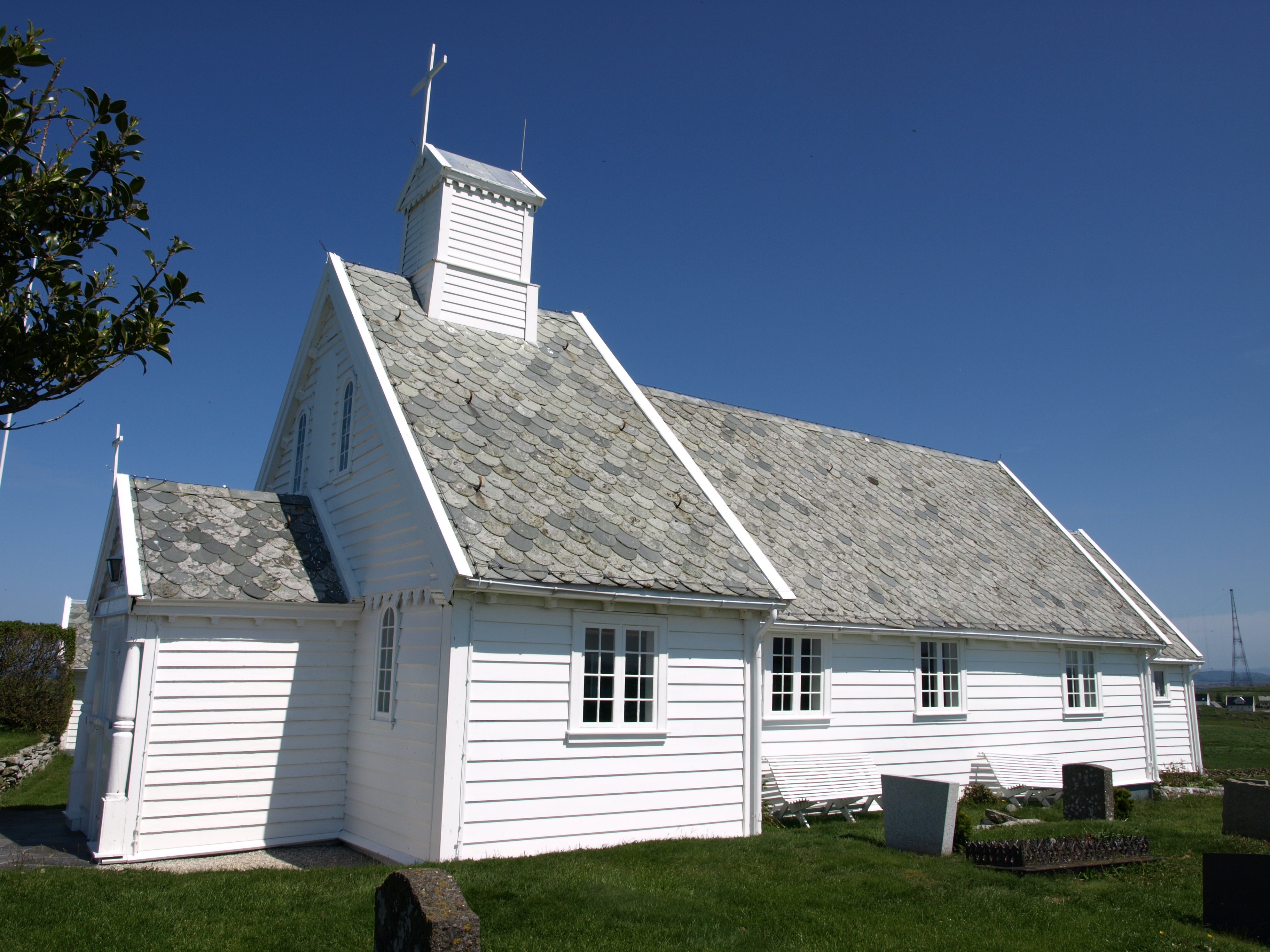 Kvitsøy church is thought to be commenced before 1591, but was completed with the altar and pulpit about. 1620. It has changed somewhat the shape and look after this. In 1797 it was restored, and in 1841 it was expanded and capable set. In 1959 the church was redecorated and ranked Koren on the ship's long walls from 1716 was brought on. Dåpssakrestiet came also as a new extension. 1797, and in 1841 it was expanded and renovated. In 1951 the church was renovated. Koren ranked in the ship's long walls (painted rose) from 1716 was then developed, and dåpssakrestiet came as a new extension. baptismal Font The church has a baptismal font made ​​of soapstone from ca.1100-century. It was originally in St. Clements Church, a small stone church that stood near the stone cross in the fairway Strait. altarpiece Originally altarpiece from ca. 1620 has been on the Norwegian Folk Museum since 1902. It was in 2003 returned to church again. Church altarpiece from 1902 to 2003, a copy of A. Tidemanns, "Resurrection," which was painted by Laurits Haaland. It has now been placed in the chapel. In connection with the return of the original altarpiece has Kvitsøy church underwent extensive repairs to ensure a climate that does not damage the beautiful decorations.